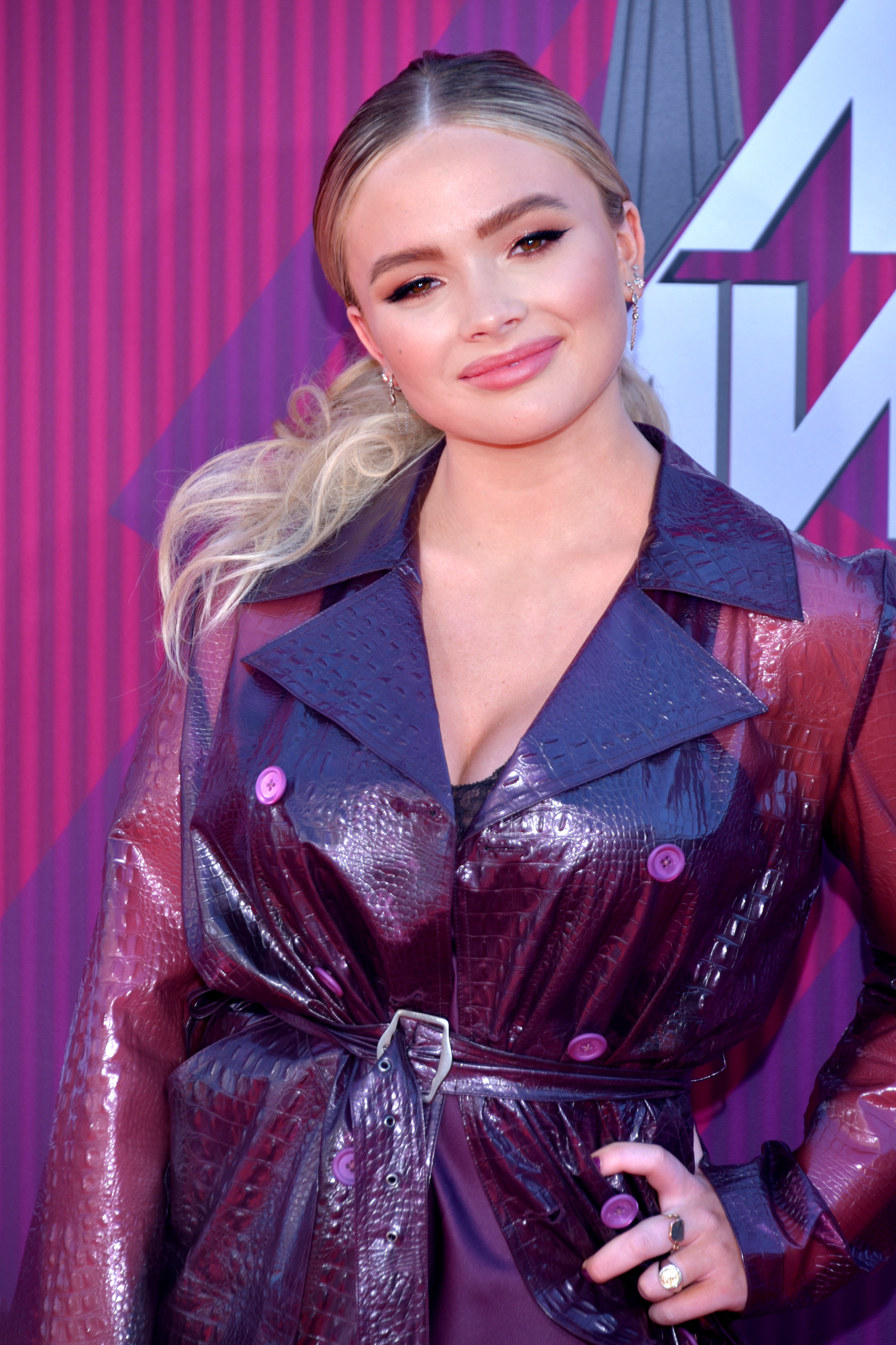 Natalie Alyn Lind at the 2019 iHeartRadio Music Awards in Los Angeles California on March 14, 2019 - Photo by Glenn Francis of